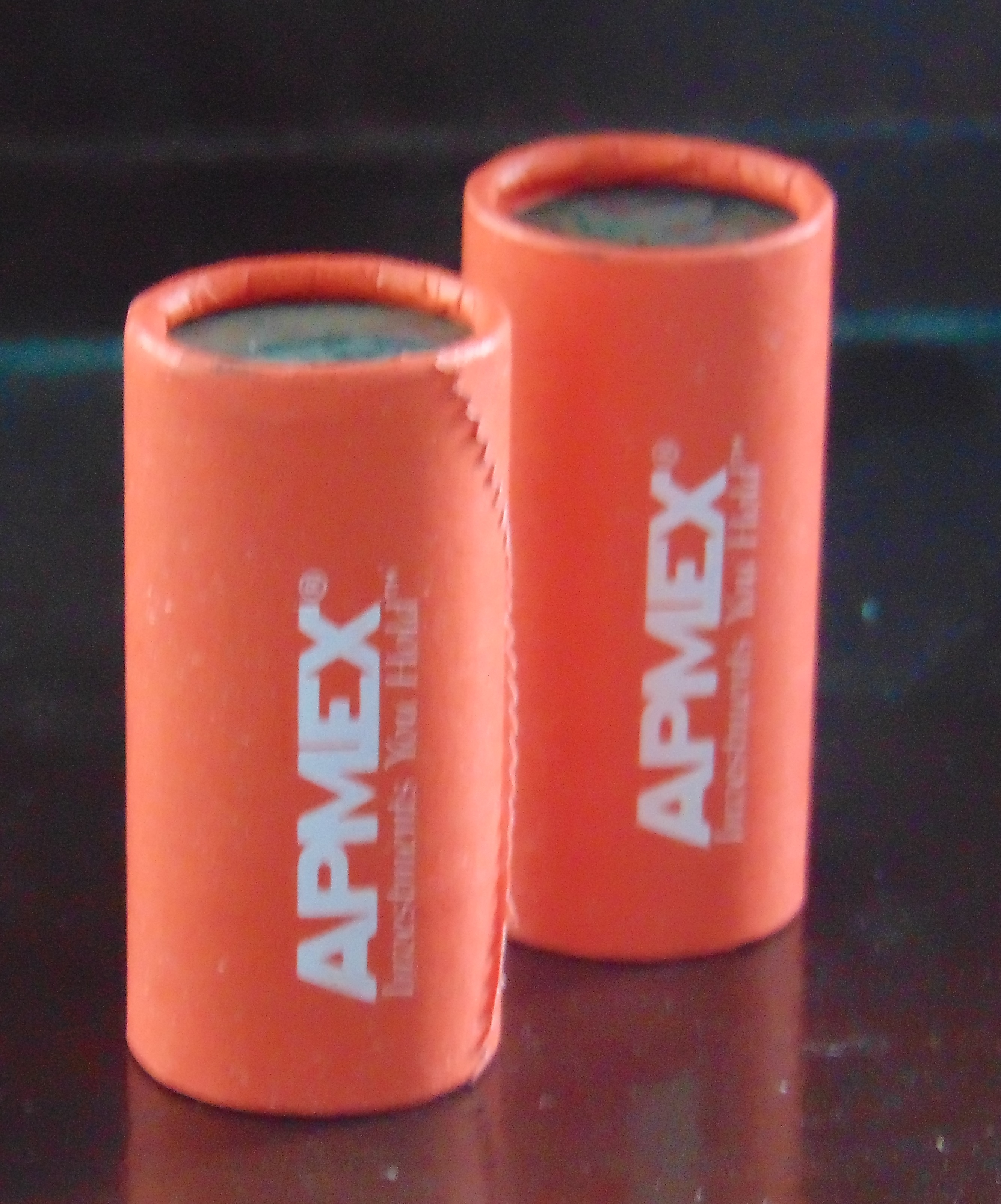 Two half rolls from APMEX, each containing 20 Jefferson 'war nickels'.